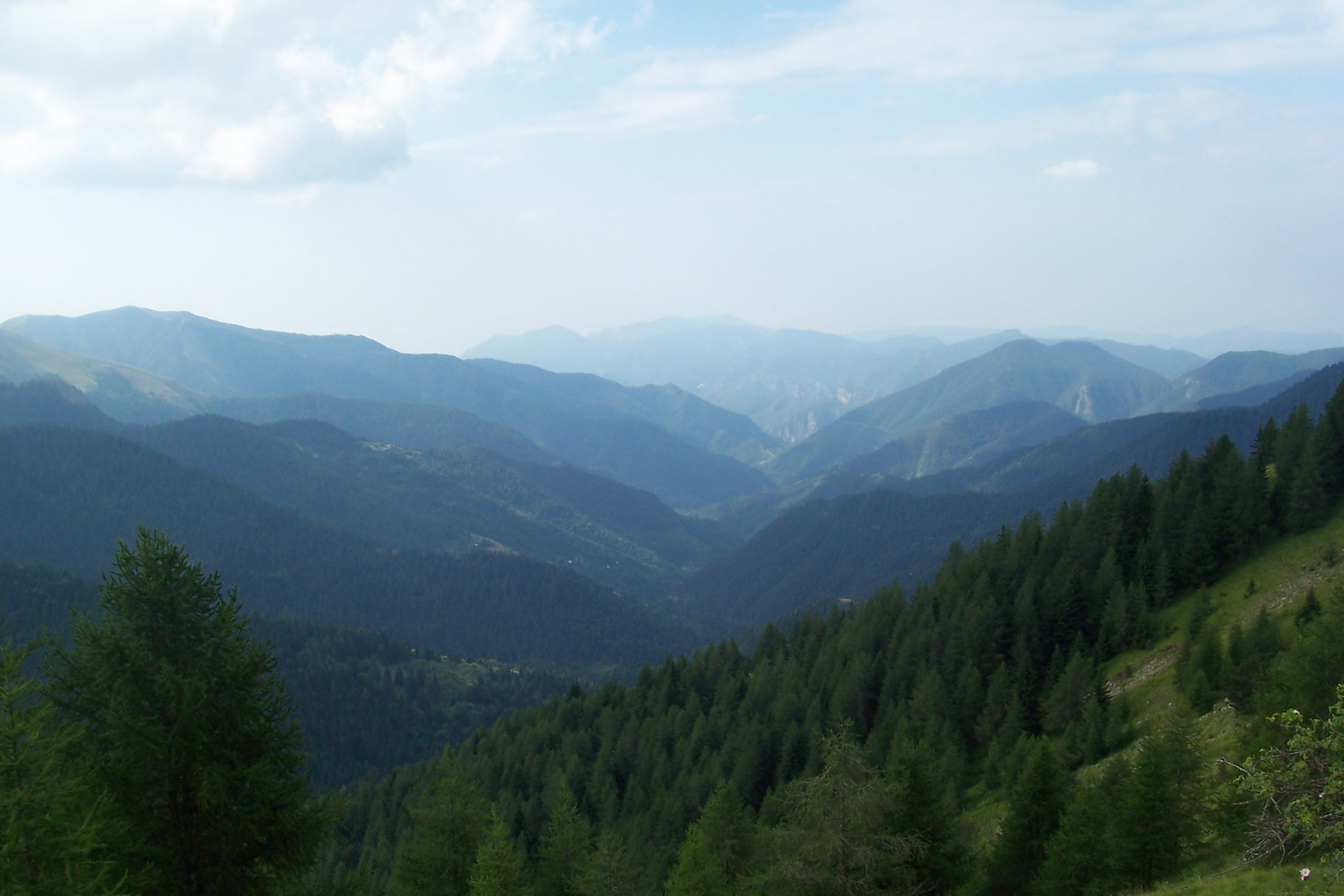 Le Mercantour National Park in South East France